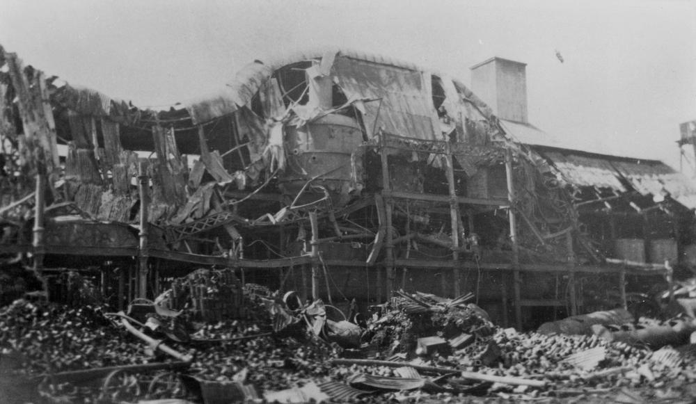 Millaquin Distillery, after its destruction by fire, Bundaberg, Queensland, 1936 There were two major fires at Millaquin. The first one, on 28th April 1927 saw part of the distillery damaged by fire. On 21st November 1936 Millaquin Distillery was destroyed by fire but was rebuilt and commenced production again on 30th August 1937.